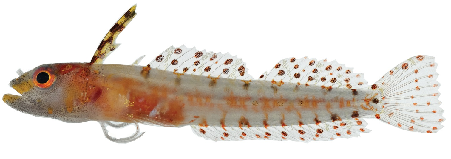 Haptoclinus dropi holotype, USNM 414915, 21.5 mm SL, female. Photograph was taken soon after the fish was captured, against a white background.